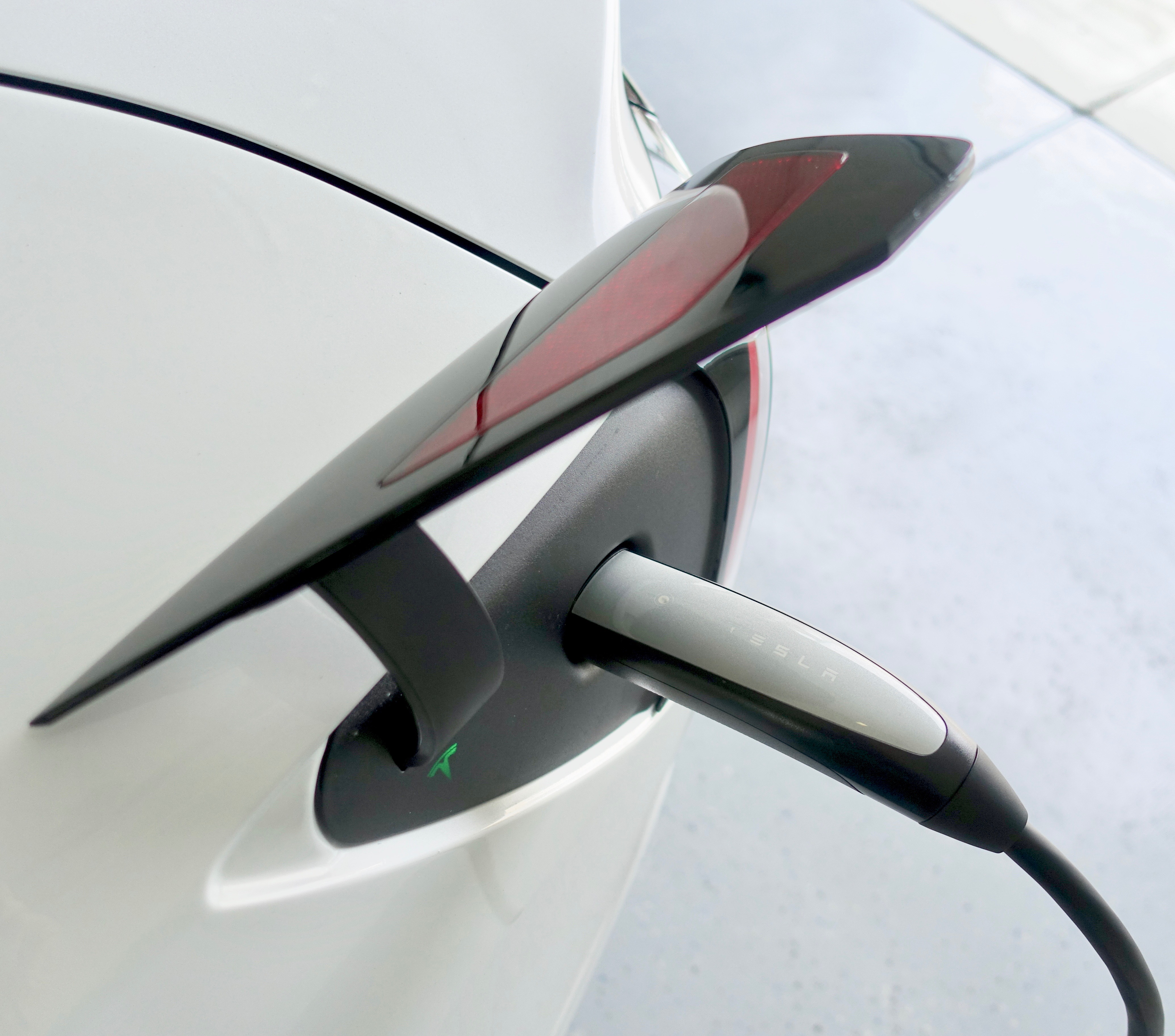 with the new charge port cover and Mobile Charger 2.0 (more efficient, lighter and longer)